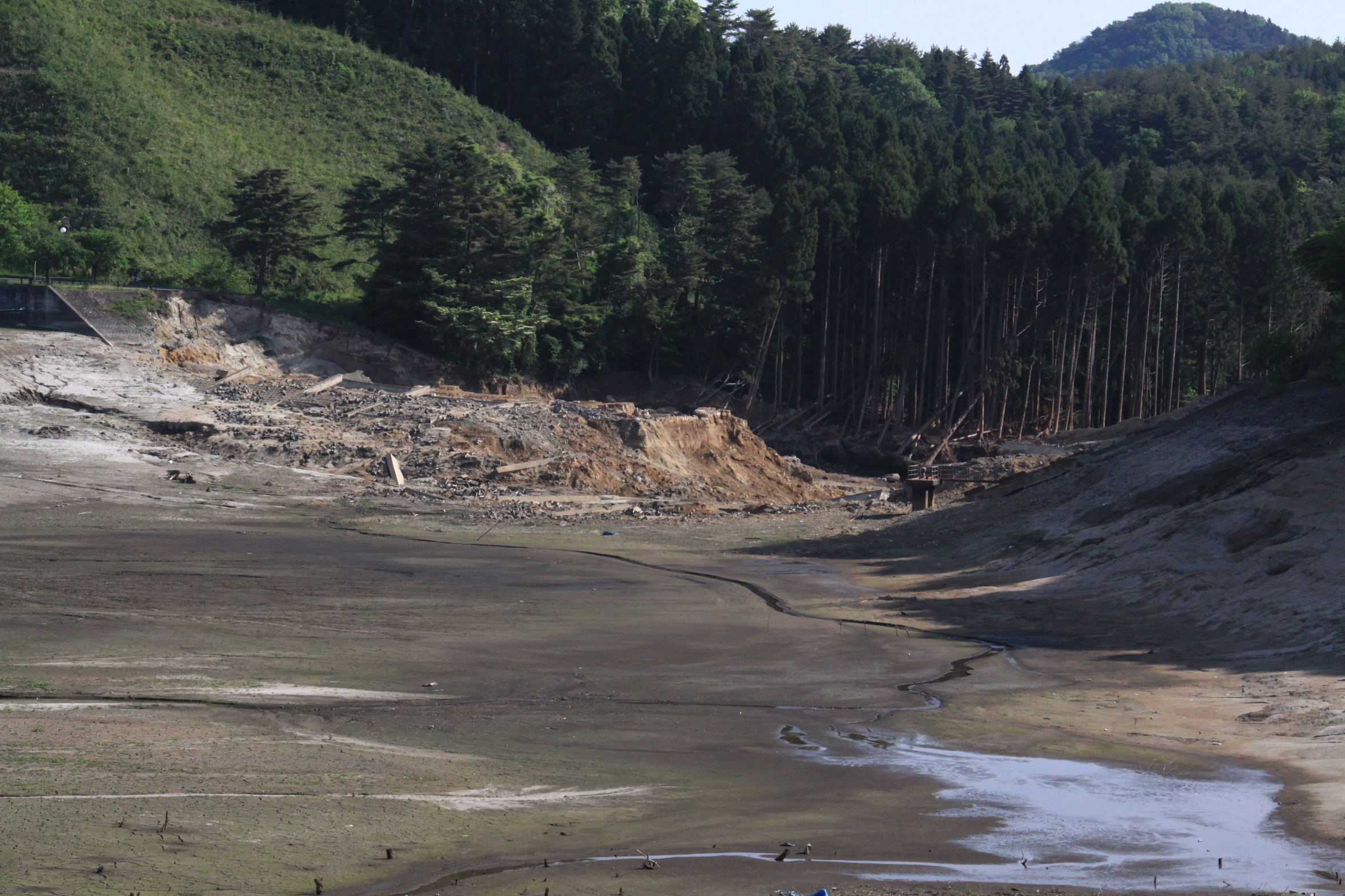 Fujinuma Dam failure in Sukagawa, Fukushima. The water of dam disappears almost and the bottom of a dam is seen.